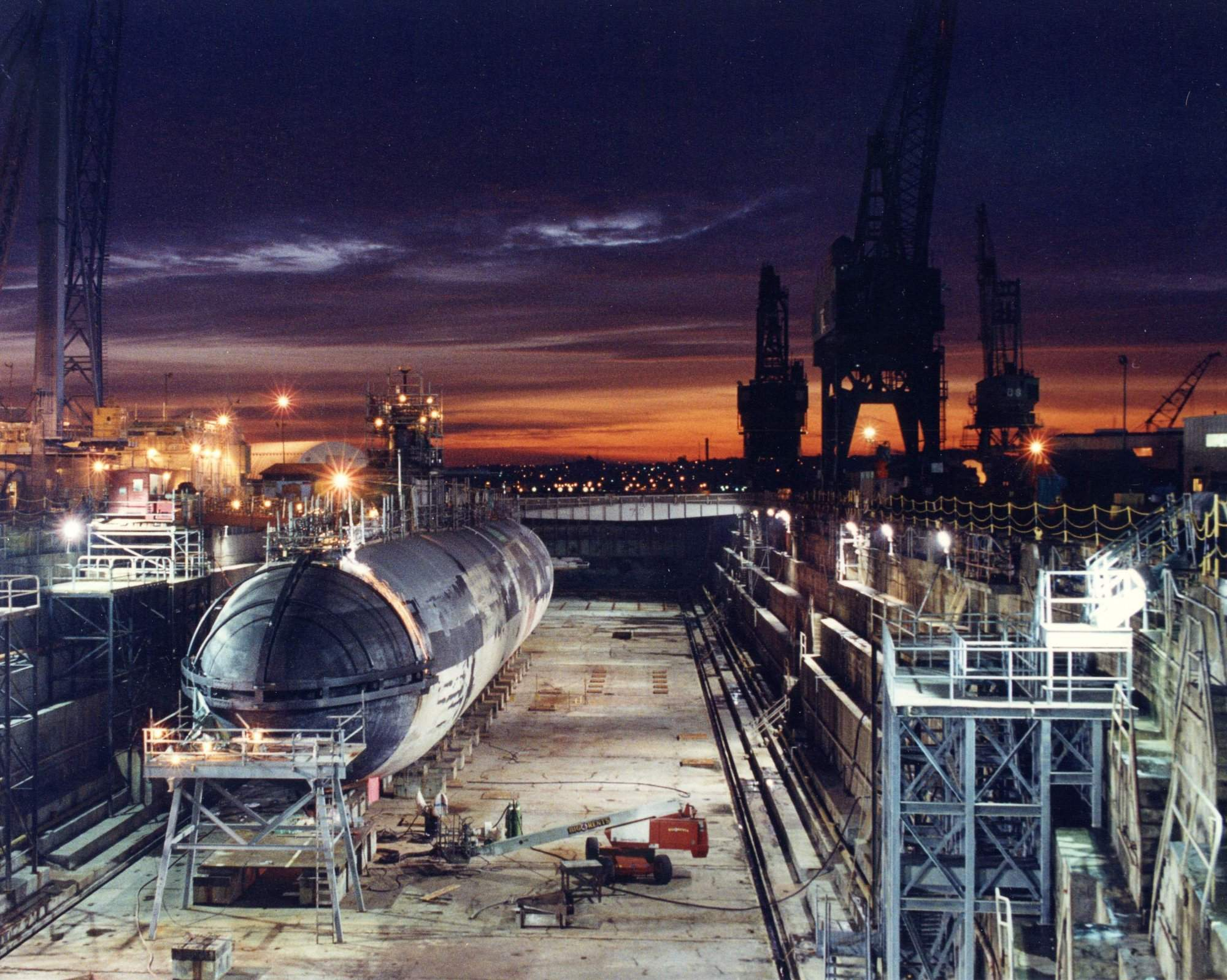 USS Baton Rouge in dry dock, shortly after her decomission